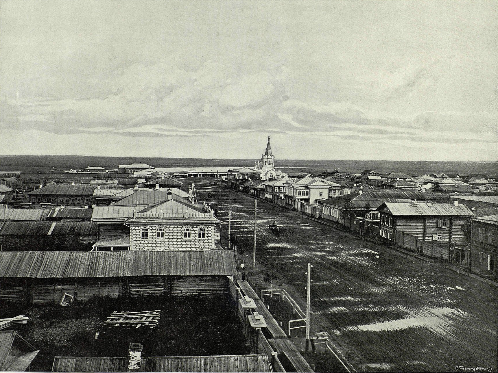 «Great Path - Views of Siberia and Great Siberian Railway» book, 1899